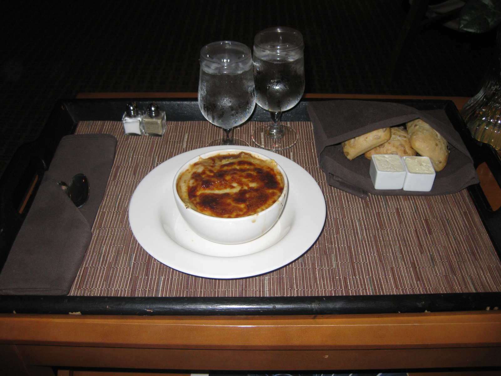 Had the WORST sore throat, ordered French Onion soup. $12.00 of deliciousness. Photo by Elizabeth (table4five) Website